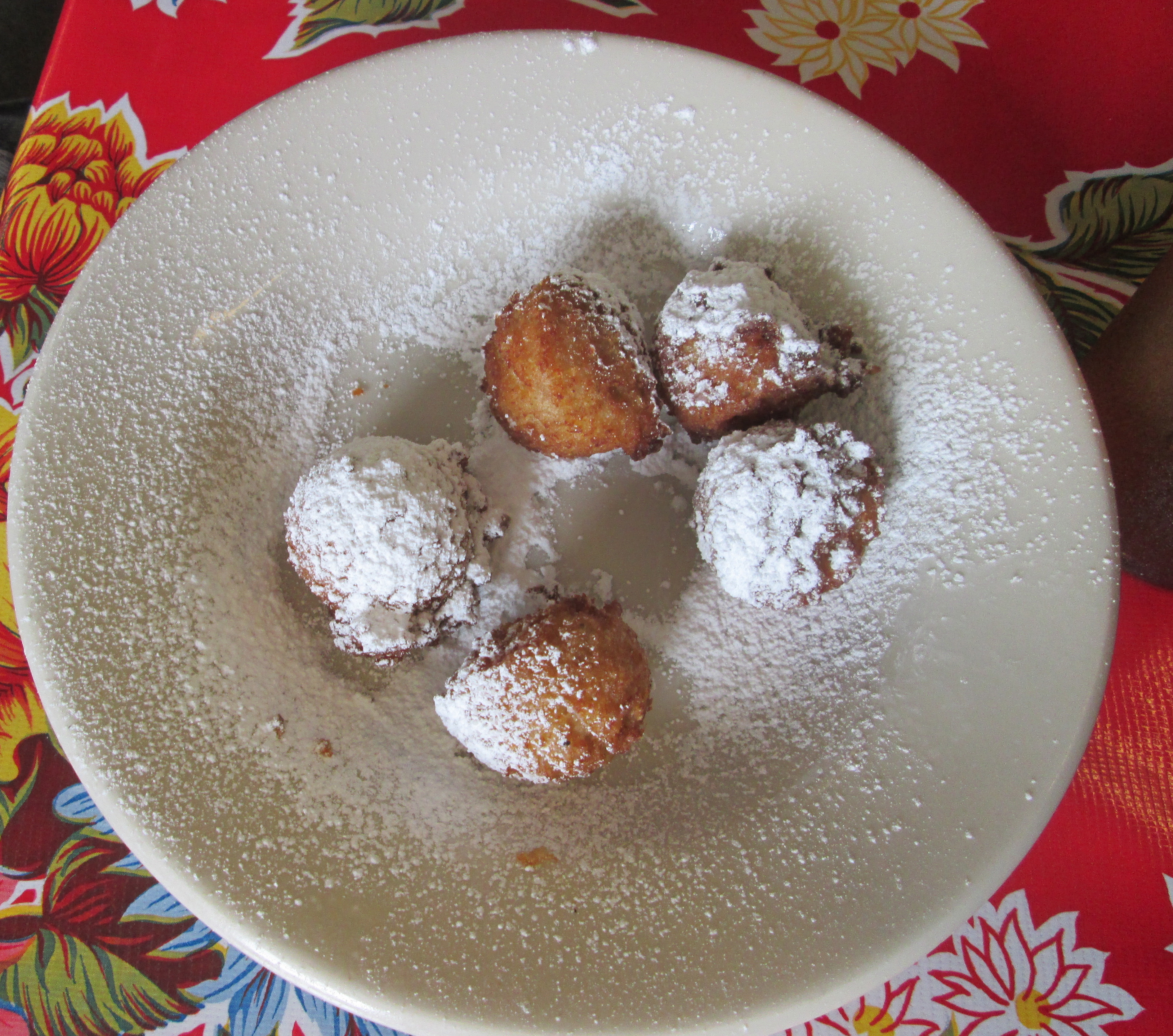 At Elizabeth's Restaurant, Bywater, New Orleans. Calas. Bel Calas Tout Chauds!